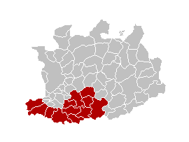 Location of Arrondissement Mechelen in Belgium.